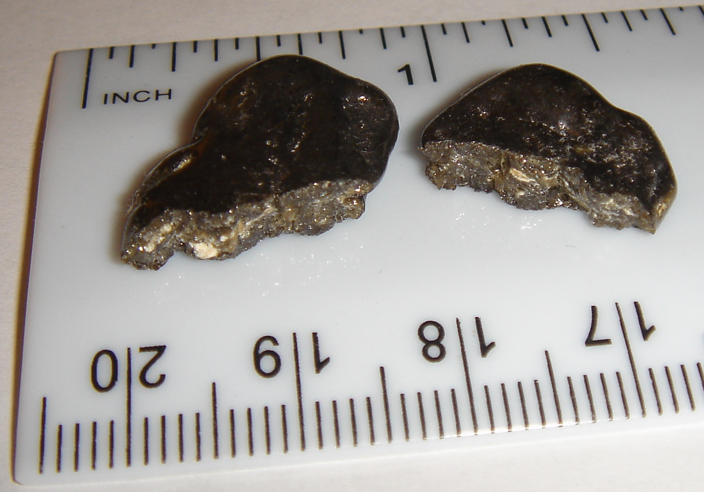 Image of bismuth slag from thermal decomposition of pepto-bismol (bismuth subsalicyclate) created by Jason Kennerly Released into the public domain with no rights reserved, Mar 2009 Zaphraud| (talk|) 03:05, 12 March 2009 (UTC)